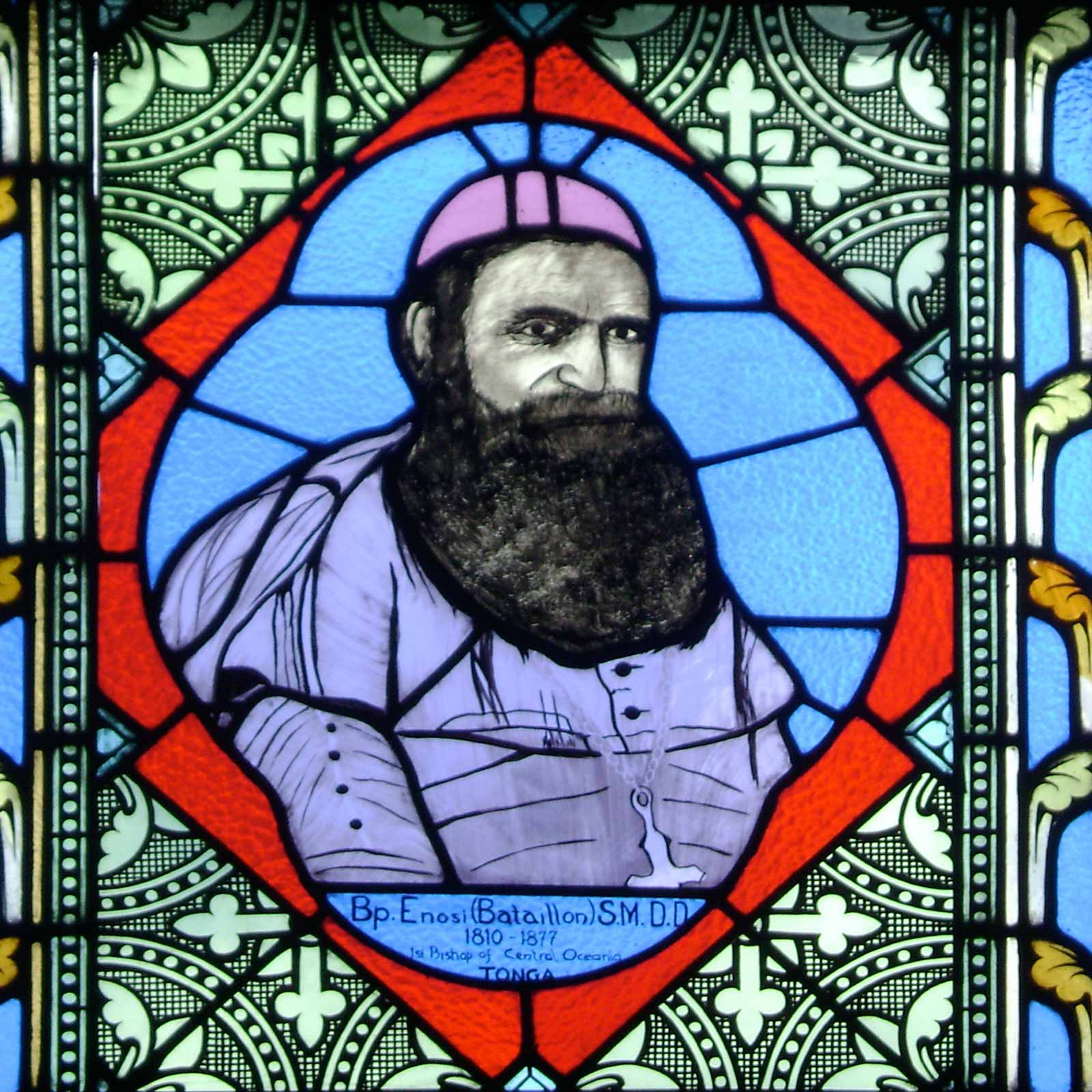 Bishop Enosi (Pierre Bataillon) depicted on a glass-in-lead window of the catholic church of Lapaha, Tonga